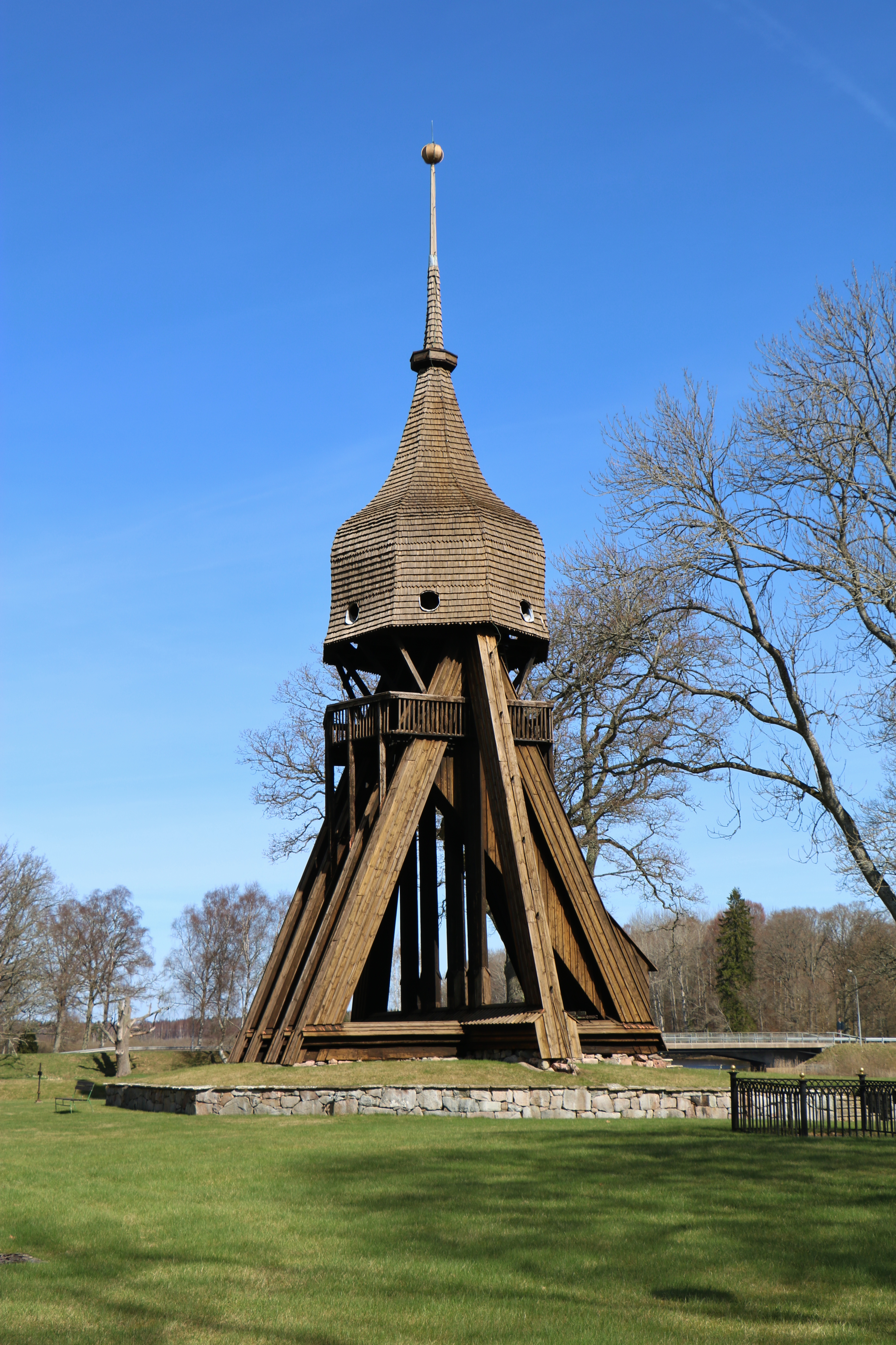 Vissefjärda Church.The bell tower, which was built in 1774.